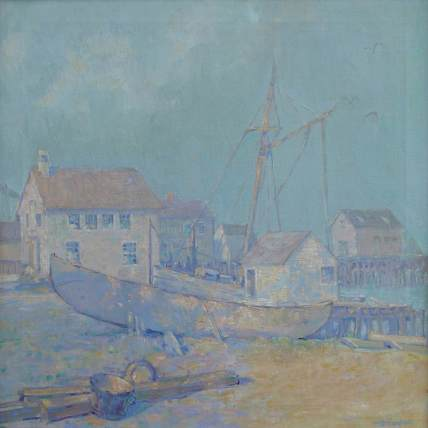 from Provincetown, Mass.